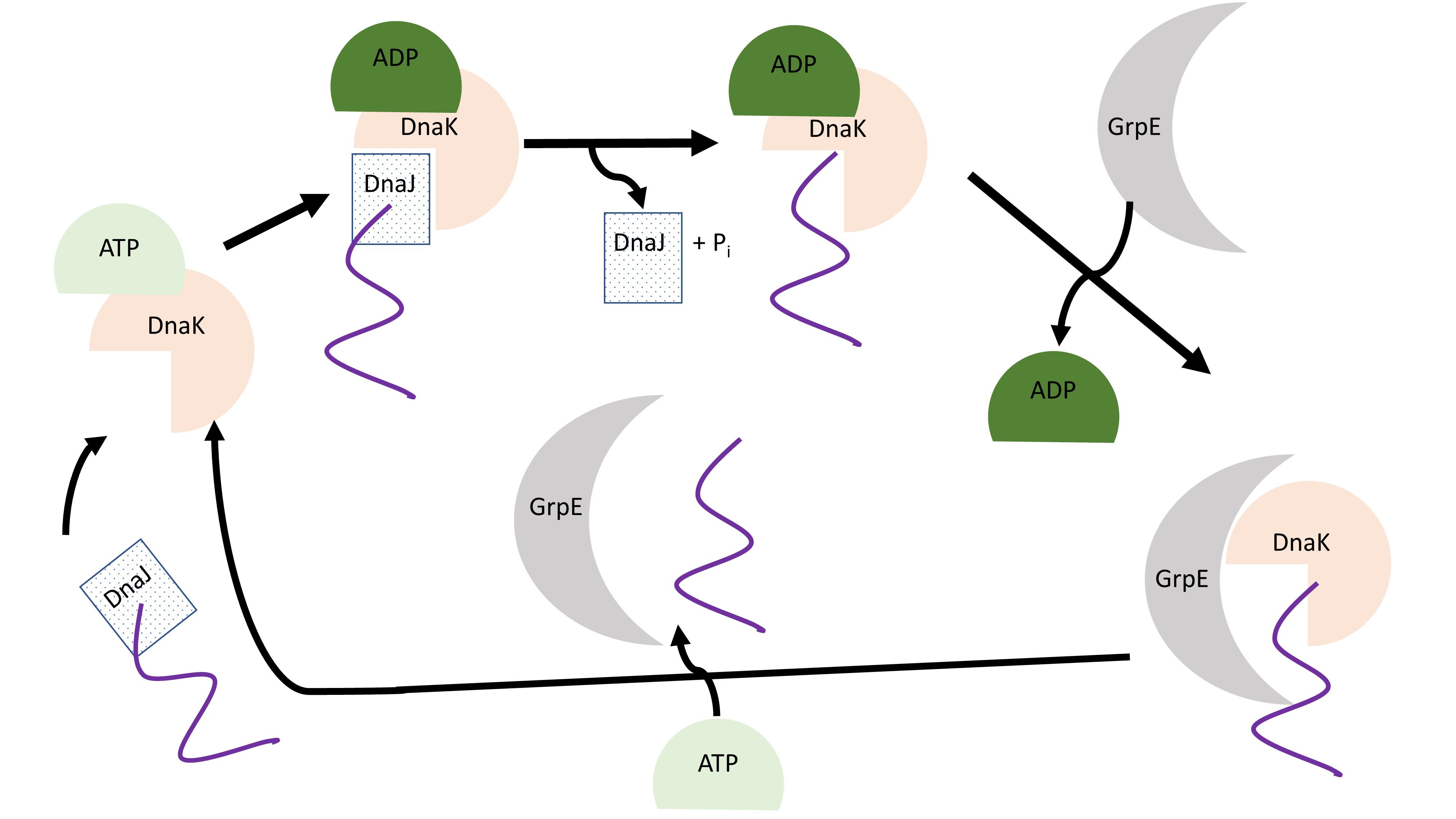 GrpE functions as a nucleotide exchange factor for DnaK